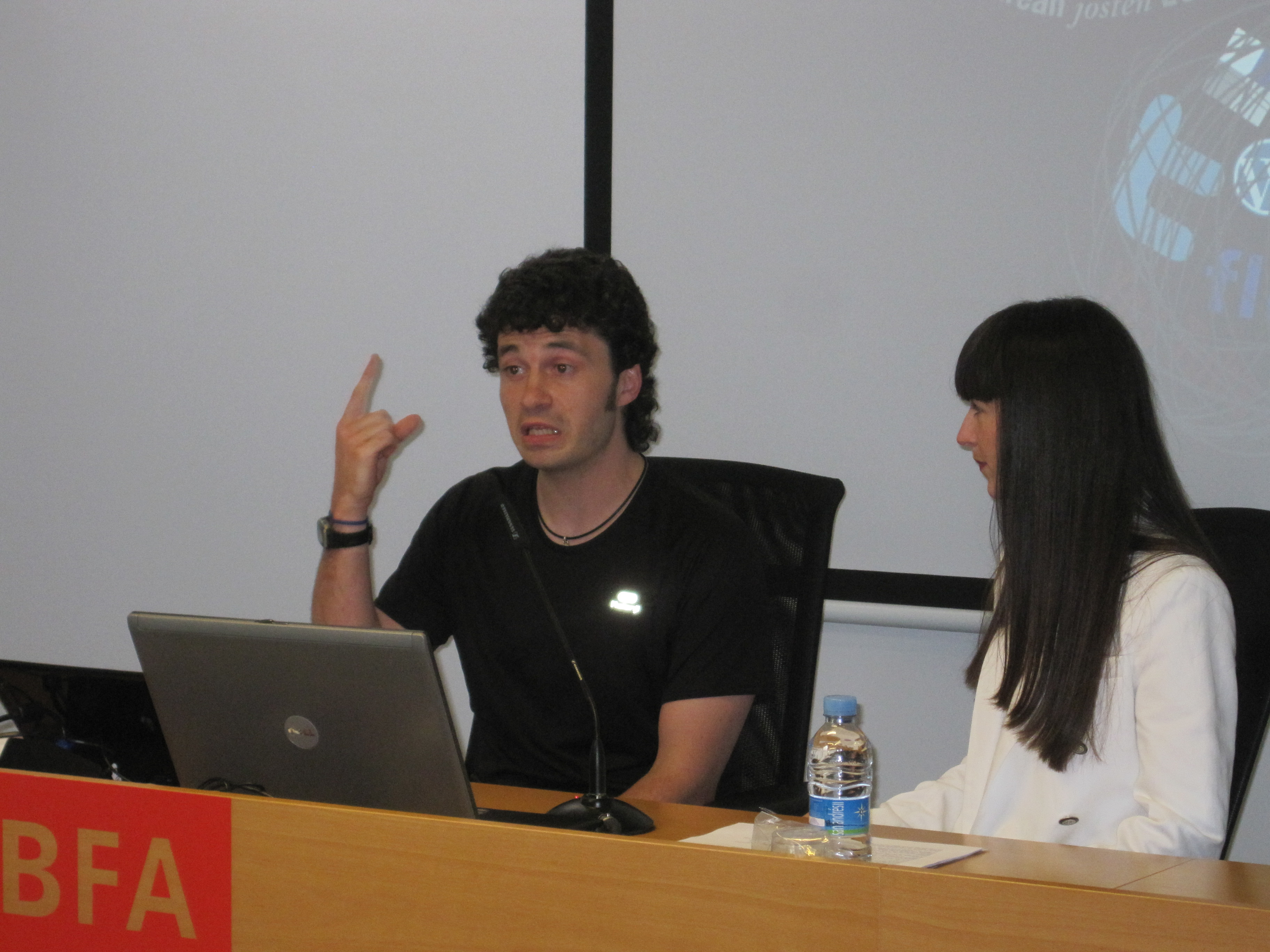 Fernando Morillo